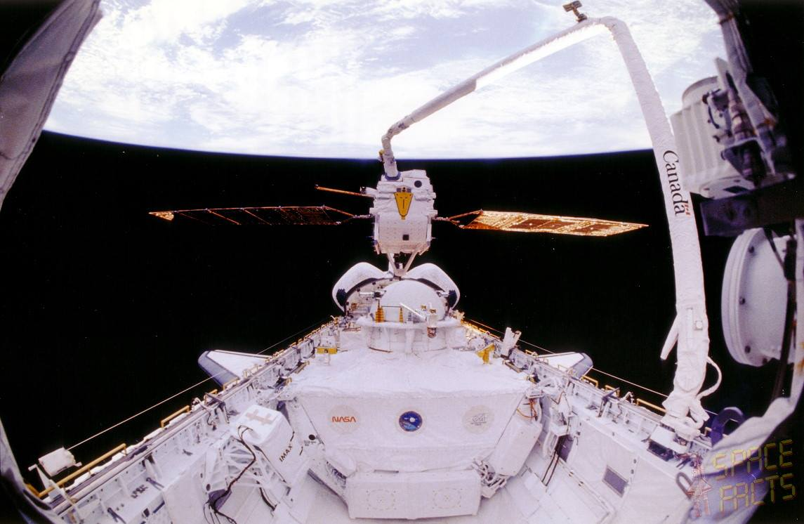 ESA's European Retrievable Carrier (Eureca) seen during deployment from Space Shuttle Atlantis (STS-46) on 2 August 1992. This 4.5-tonne satellite with 15 experiments was an ESA mission and built by the German MBB-ERNO company. It was deployed from the Shuttle's cargo bay and put into orbit at an altitude of 508 km, and was retrieved on 1 July 1993 by STS-57 and returned to Earth.